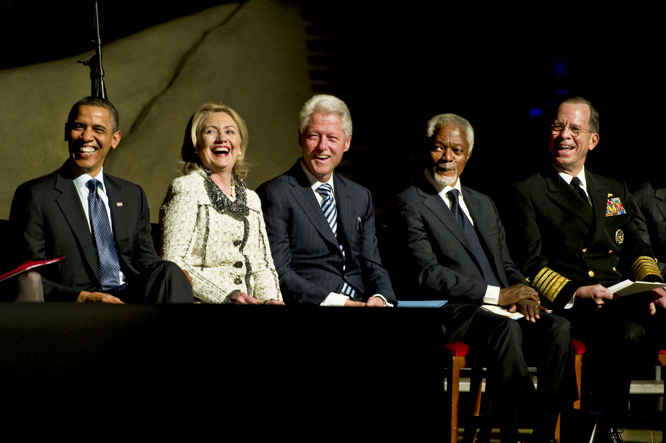 President Barack Obama, Secretary of State Hillary Clinton, former President Bill Clinton, former U.N. Secretary General Kofi Annan and Navy Adm. Mike Mullen, chairman of the Joint Chiefs of Staff, share a laugh during the memorial service for Ambassador Richard C. Holbrooke at the John F. Kennedy Center for Performing Arts in Washington, D.C., Jan. 14, 2011.